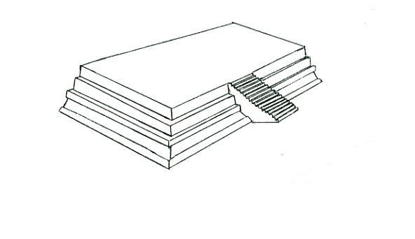 StructureC-79-sub,Seibal,the maya ruin